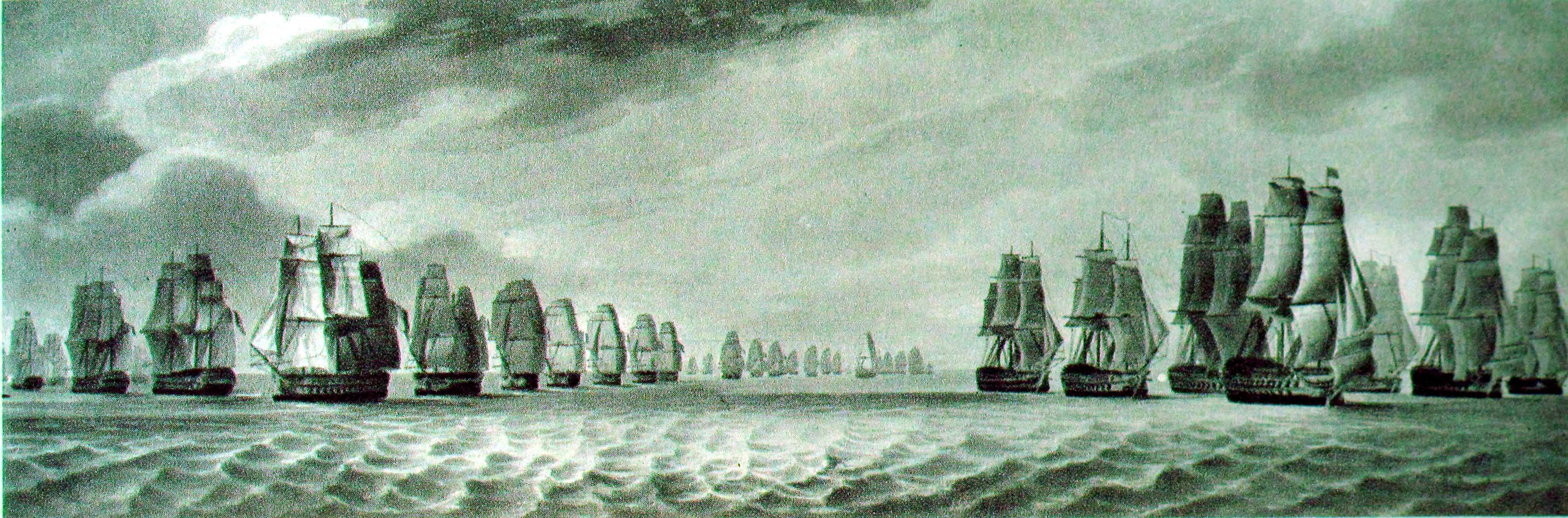 Last phase of Admiral Cornwallis's fight: the French squadron withdrawing 1 2 3